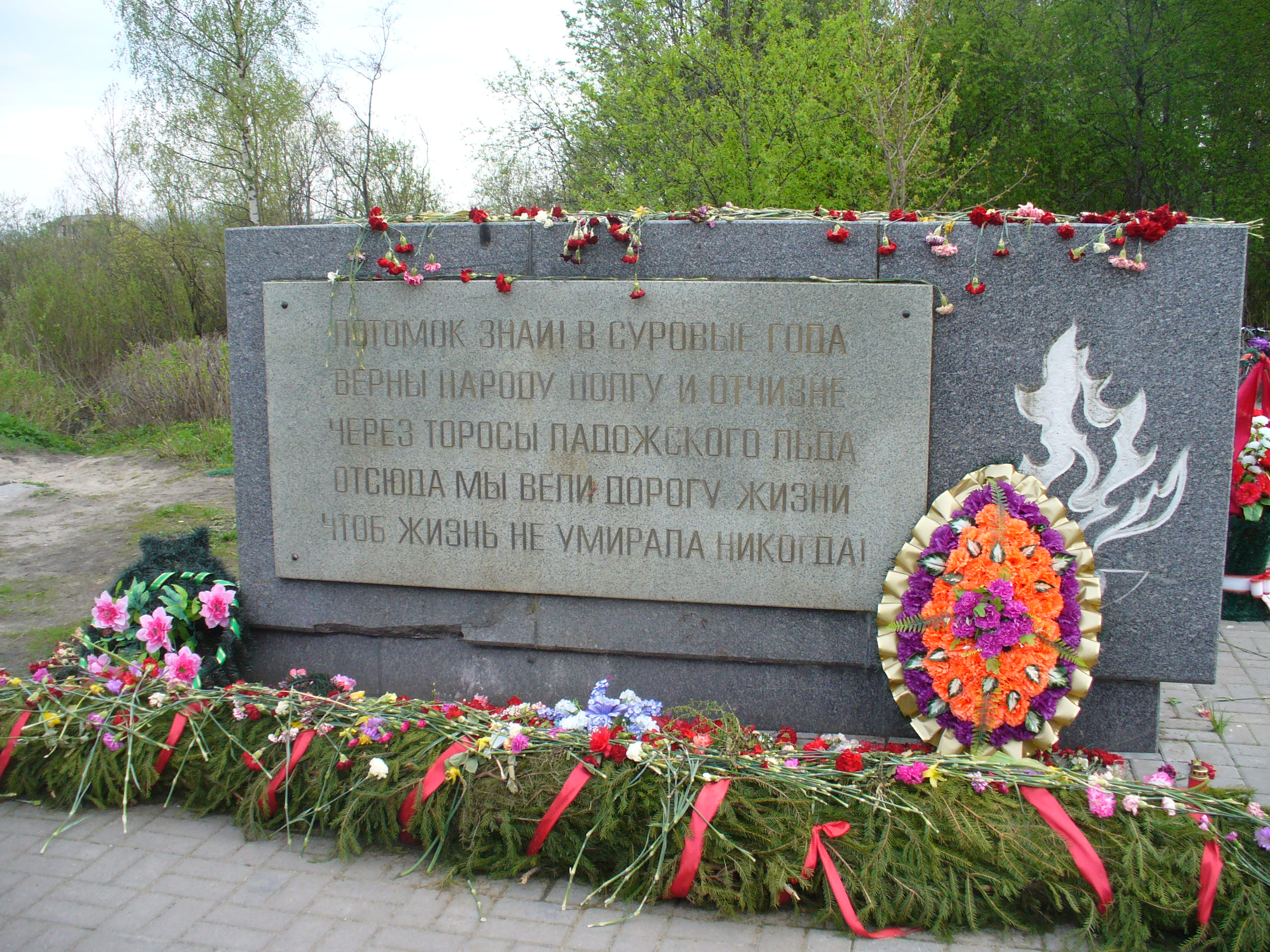 Part of "The broken circle" monument on bank of lake Ladoga